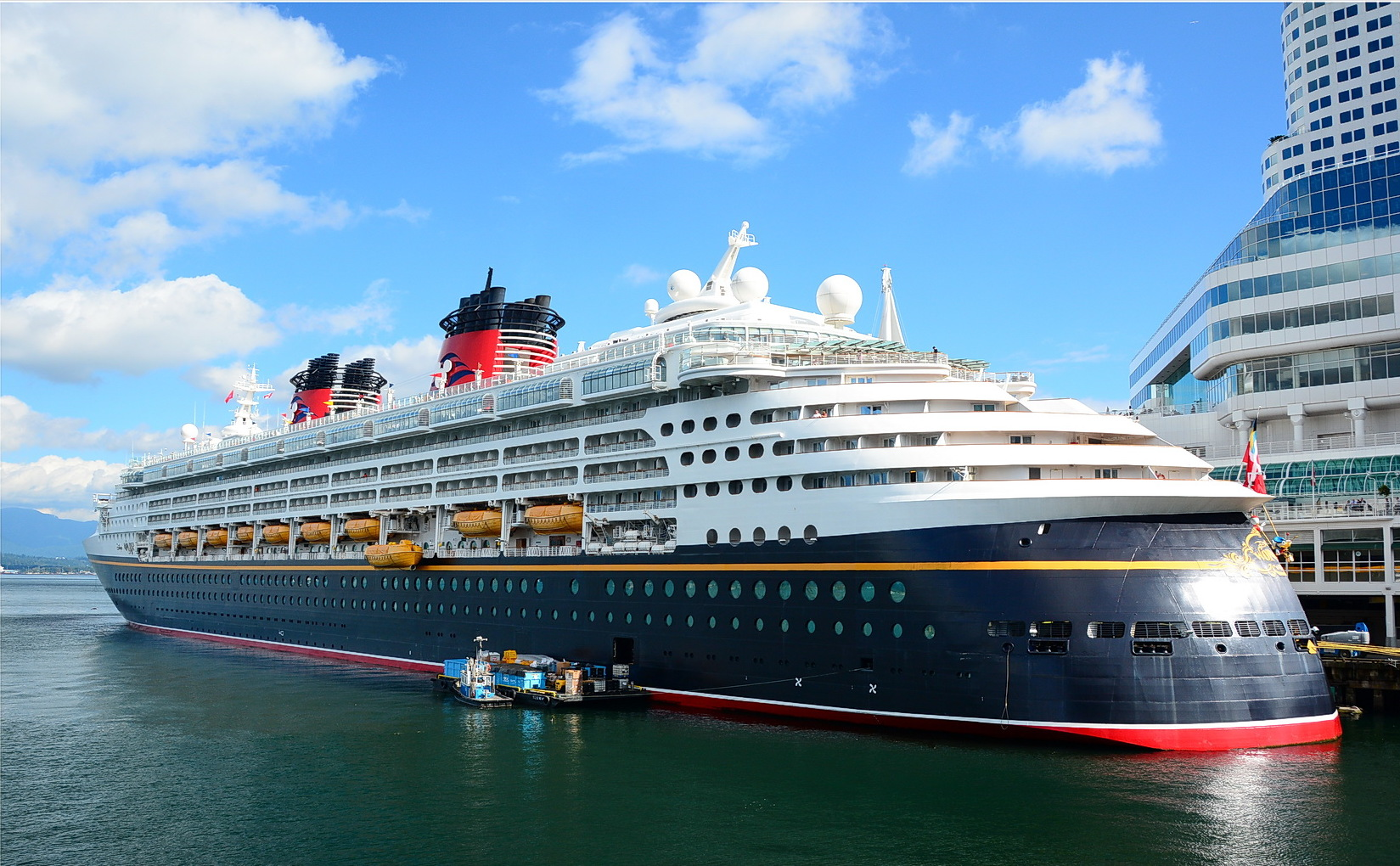 The Disney Wonder cruise ship, docked in Vancouver.